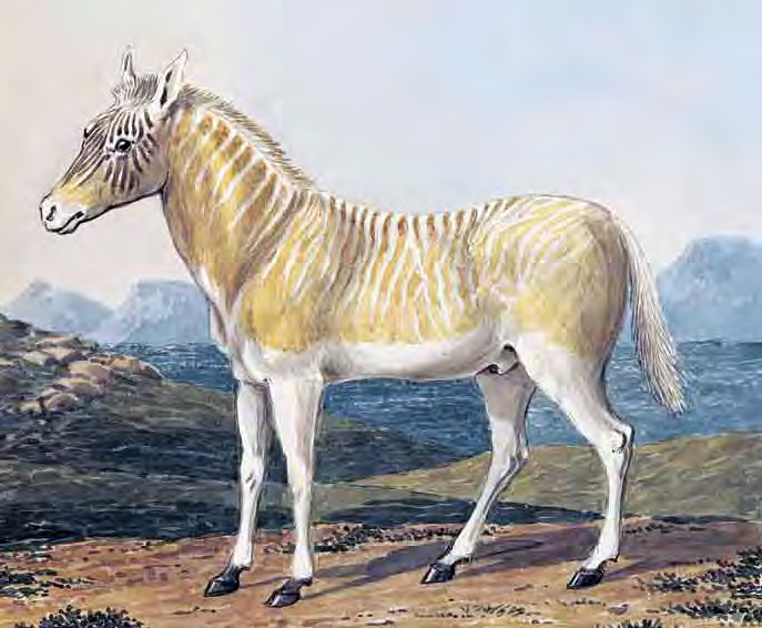 Iconotype of Hippotigris isabellinus, an aberrant quagga.